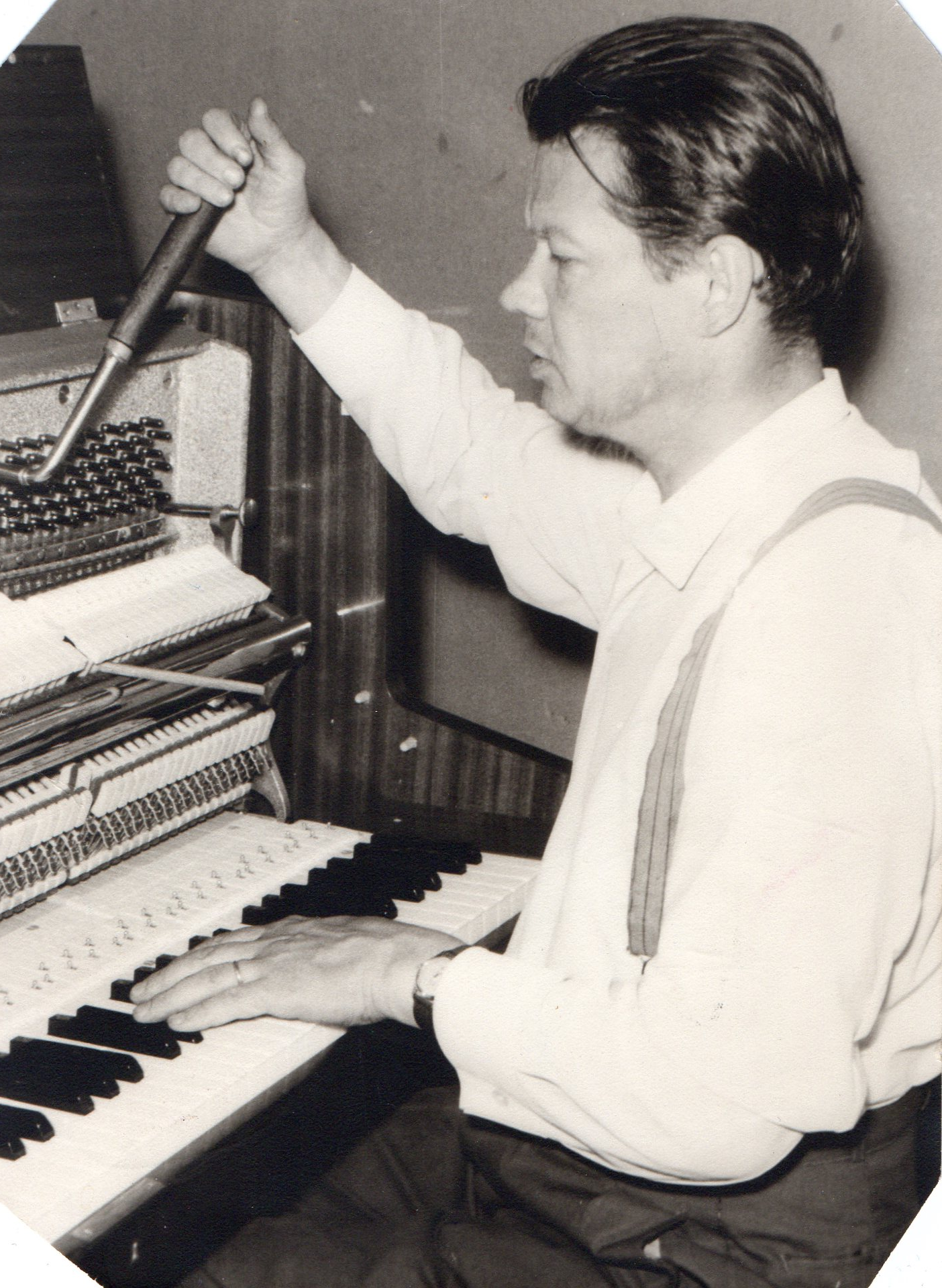 Olavi Marttiini virittää pianoa